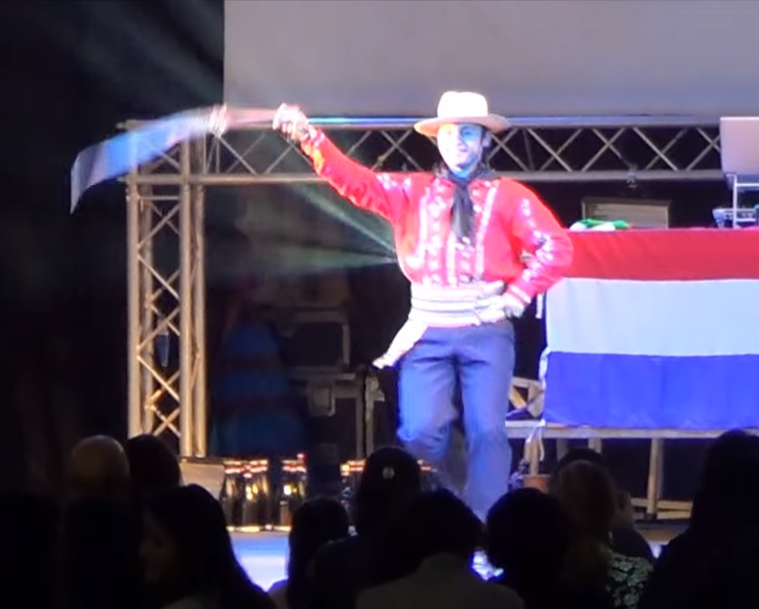 Man dancing the zapateo, a folk dance from Paraguay